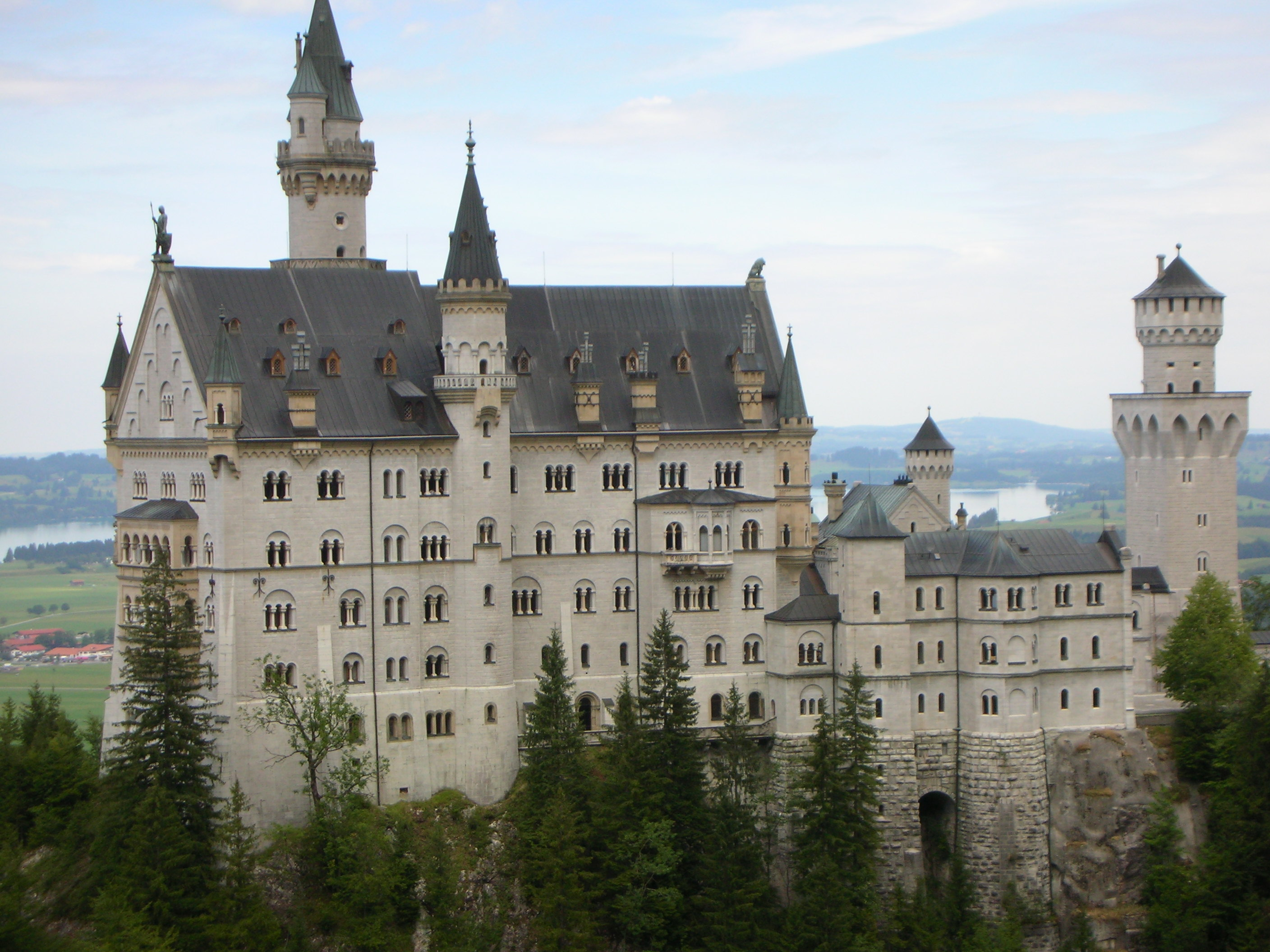 Neuschwanstein Castle, Schwangau (Germany)